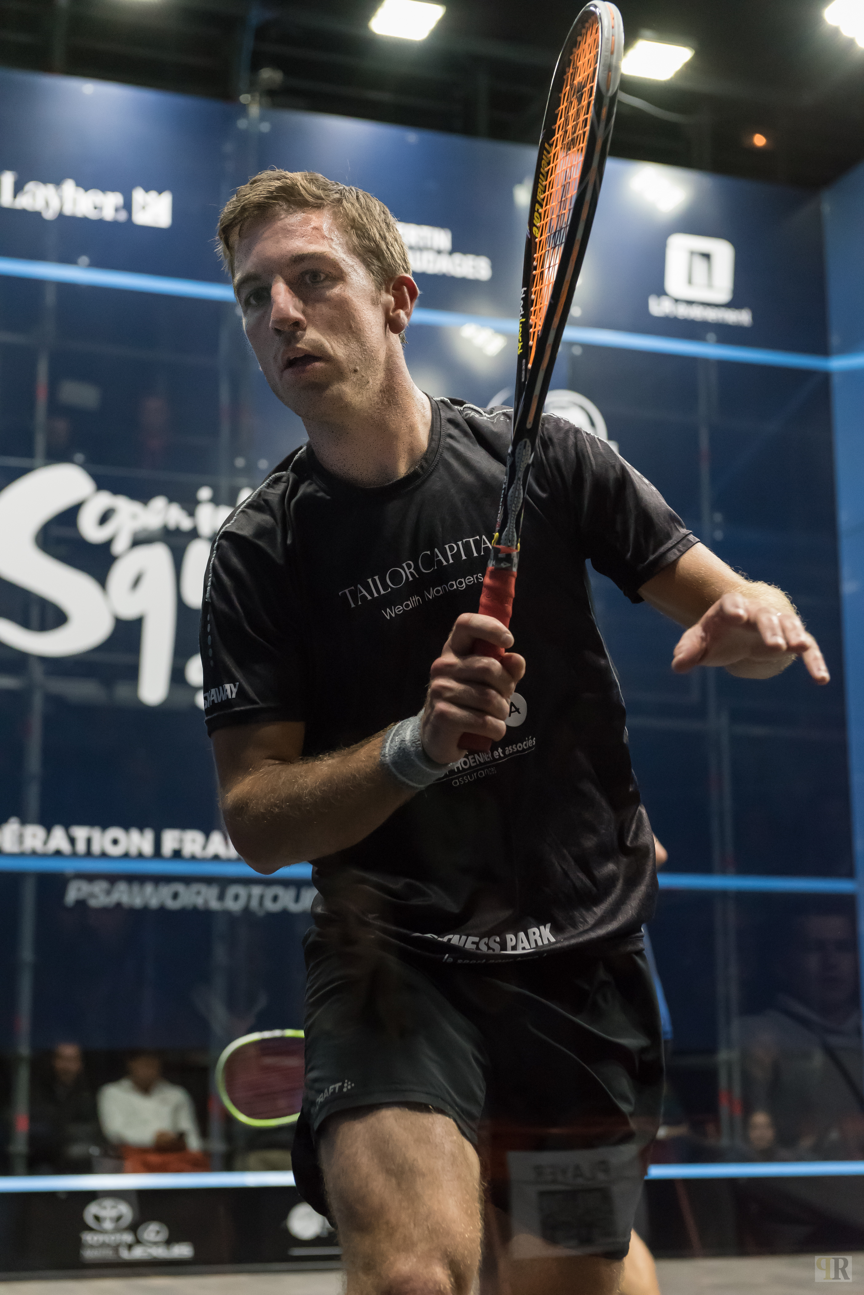 Mathieu Castagnet, Open International de Squash de Nantes 2017